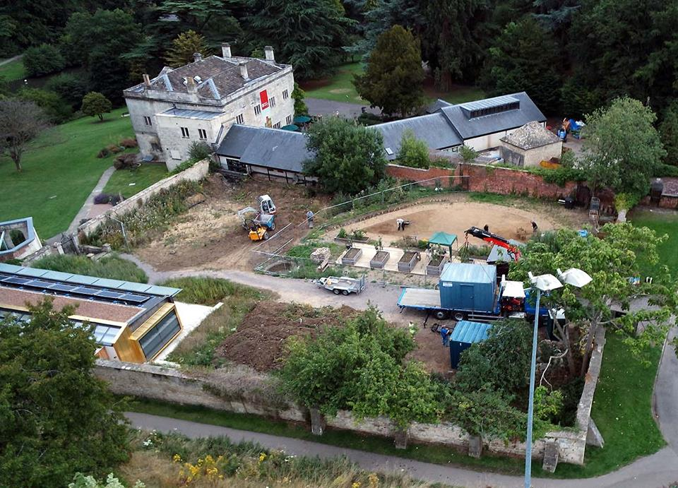 Kite aerial photograph of the restoration of the walled garden at the Museum in the Park, Stroud, Gloucestershire, UK. Wikidata has entry Q26557846 with data related to this item.